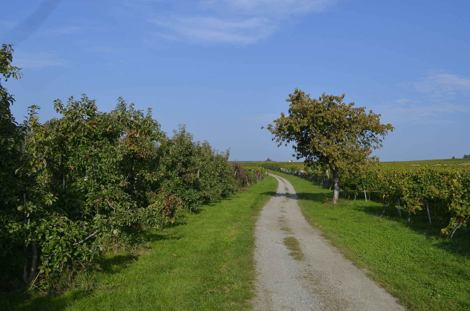 Orchards and Wineyards in Nonnenhorn